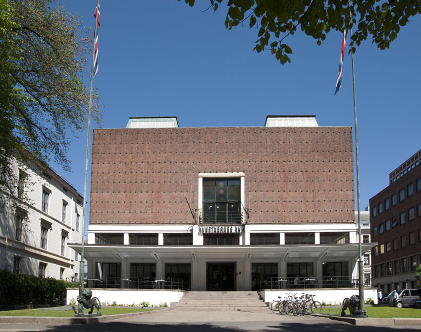 Kunstnernes Hus facade